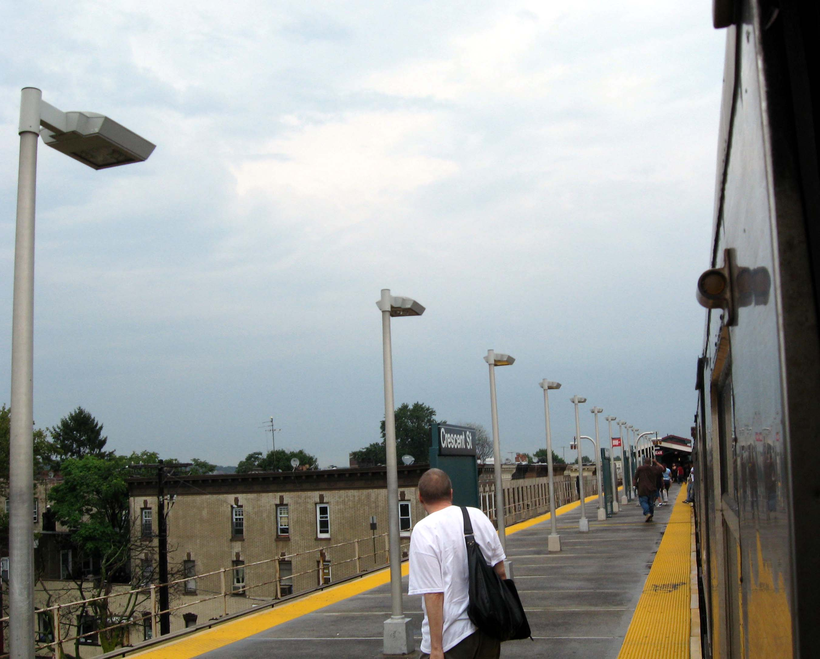 Looking northeast along western part of platform of Crescent Street (BMT Jamaica Line) on a rainy midday.